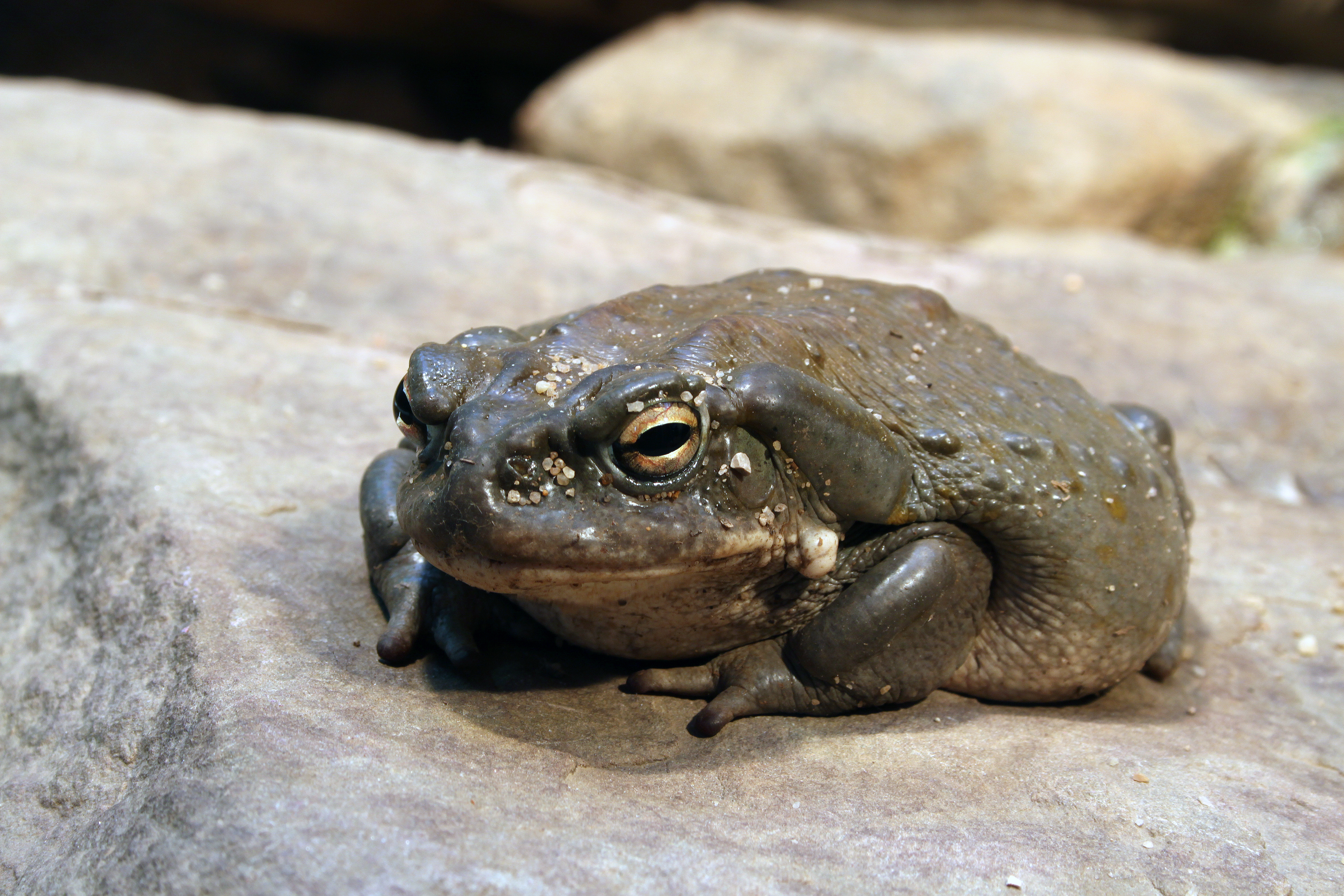 Colorado River Toad|, Incilius alvarius, Syn.: Bufo alvarius, Family: Bufonidae